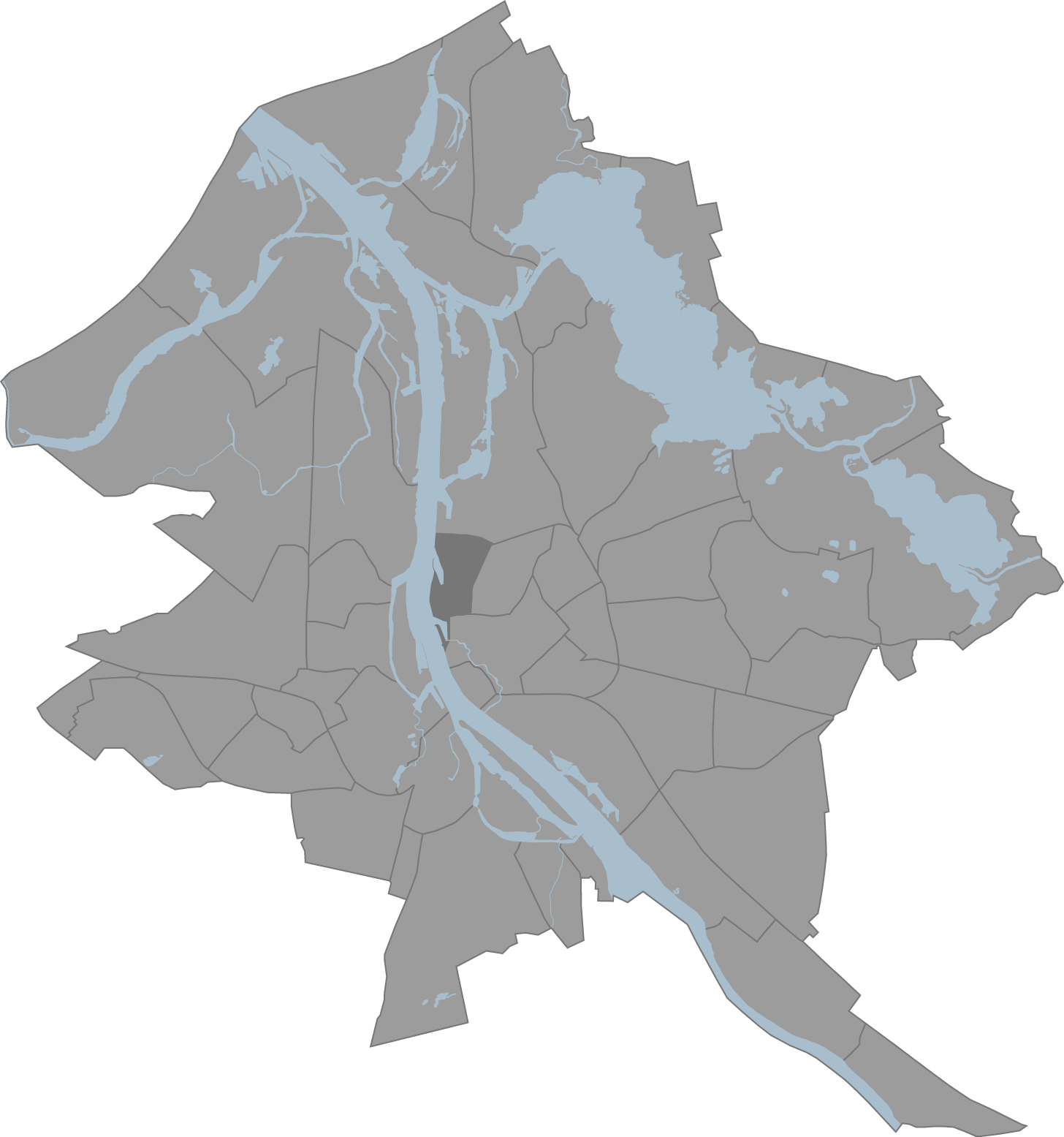 A map of Riga, Latvia with the eponymous commune highlighted